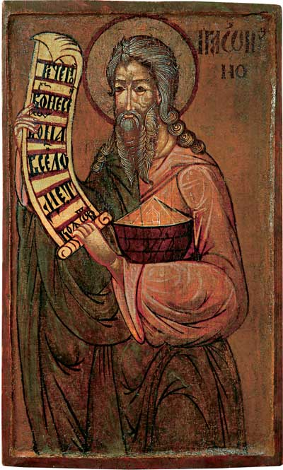 Icon of Noah. Rybinsk museu